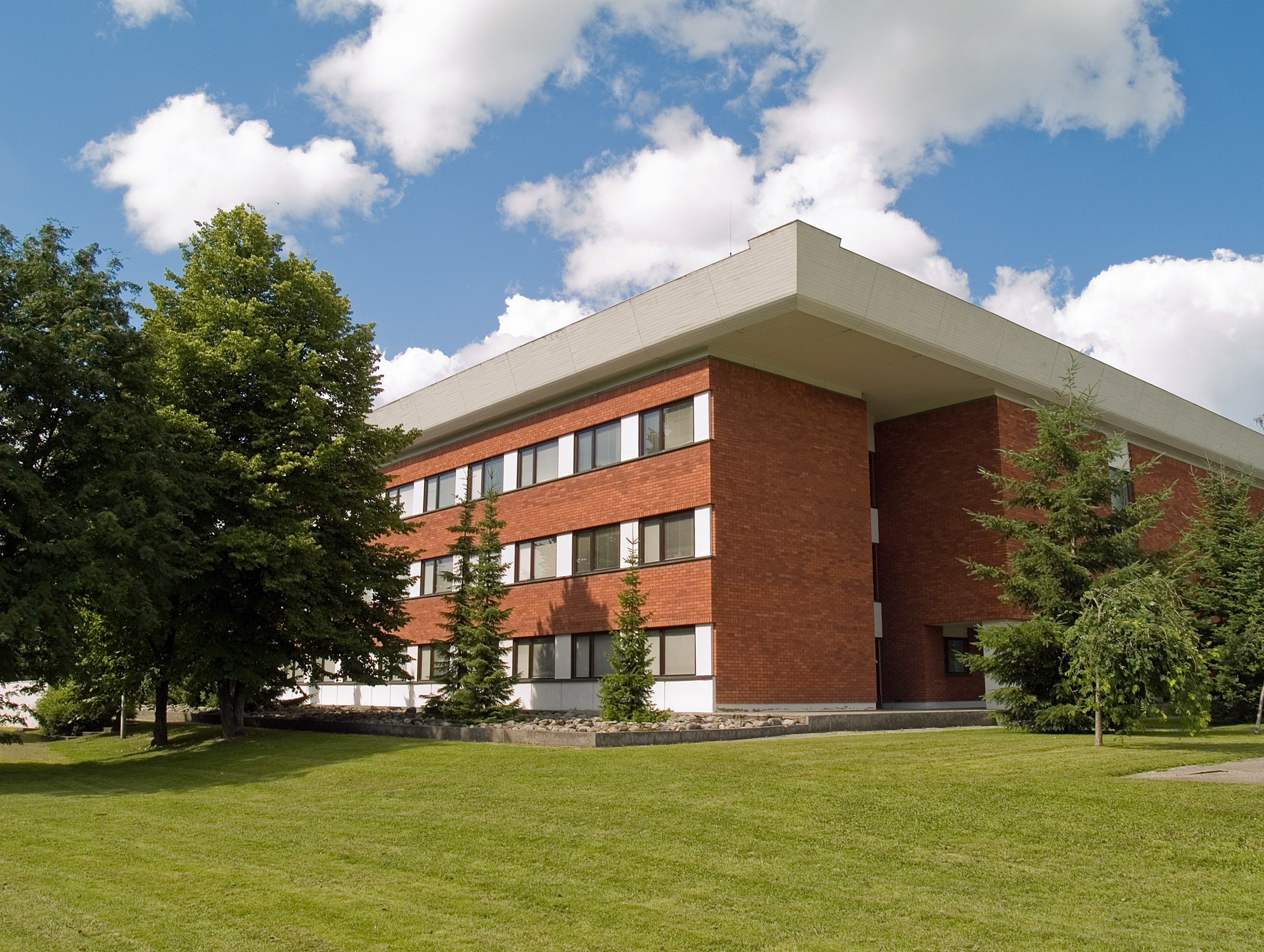 The town hall (kunnantalo) of Ilmajoki, Finland (architect Keijo Petäjä 1965). September 2012.